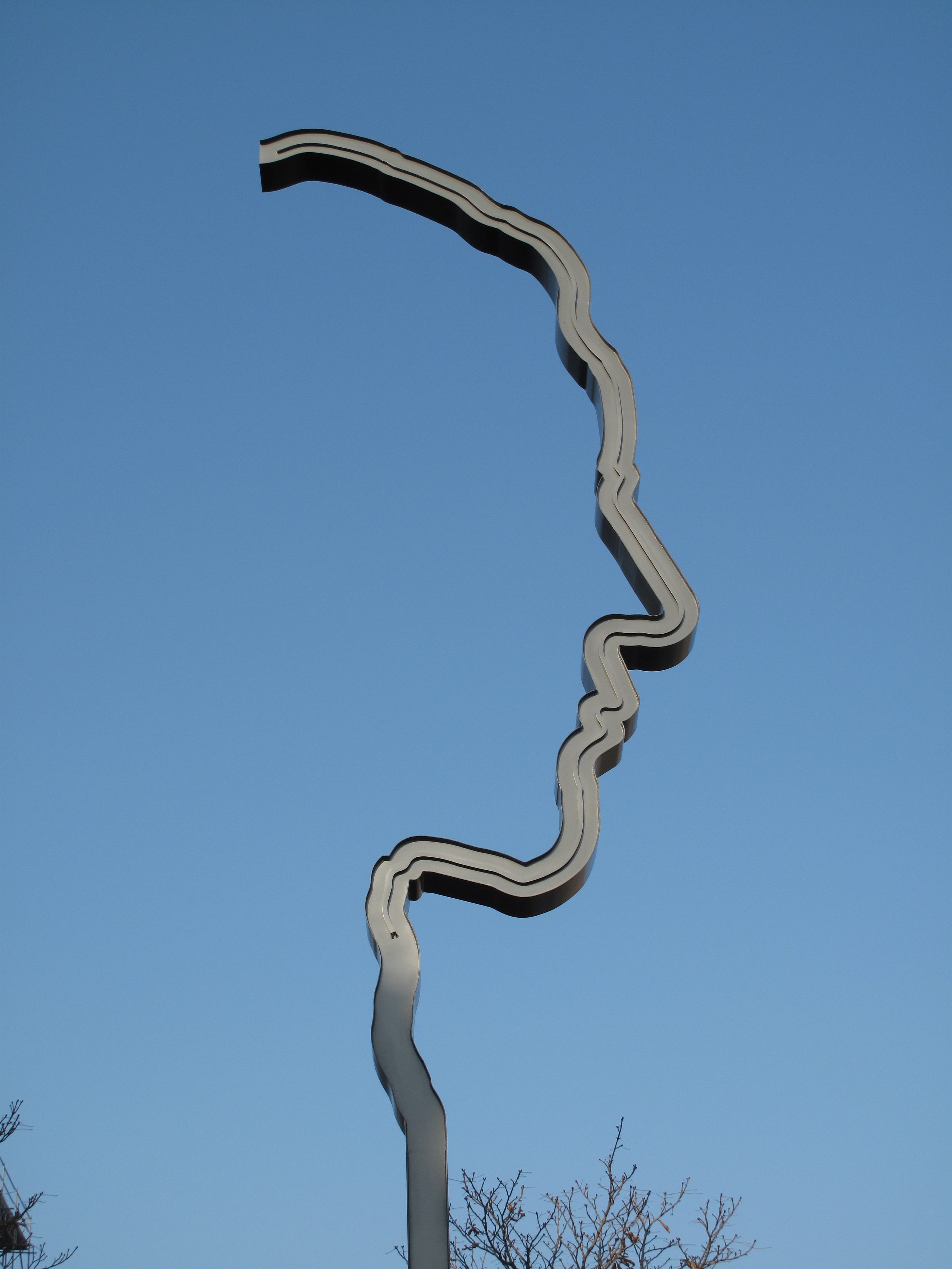 The historical marker Denkzeichen Georg Elser is a sculpture in Berlin-Mitte commemorating to the German opponent of Nazism and Hitler-assassin Georg Elser. The 17-meter high sculpture was created by the artist Ulrich Klages and was opened to the public on 8 November 2011. It is situated at the corner Wilhelmstraße/An der Kolonnade and is completed by two quotes from Elser, that were set into the sidewalk, and by an information board.